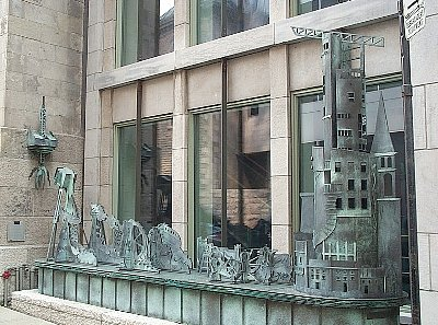 Totem urbain / histoire en dentelles by Pierre Granche, McCord Museum (exterior), Montreal. Photo by Montrealais.